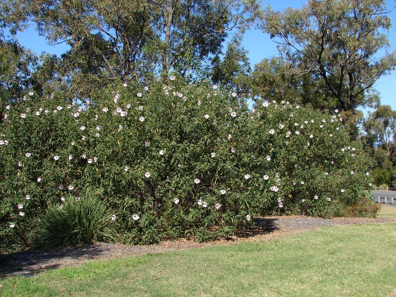 Location: Haig Street Quarry Bushland reserve, Ipswich, Queensland, Australia